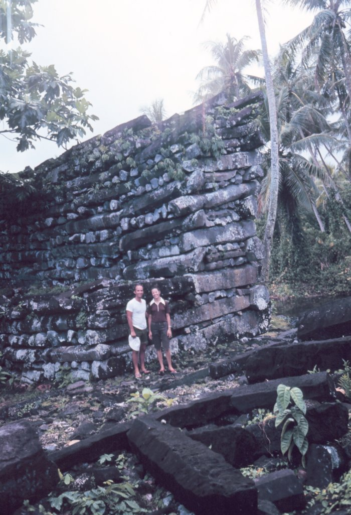 Nan Madol